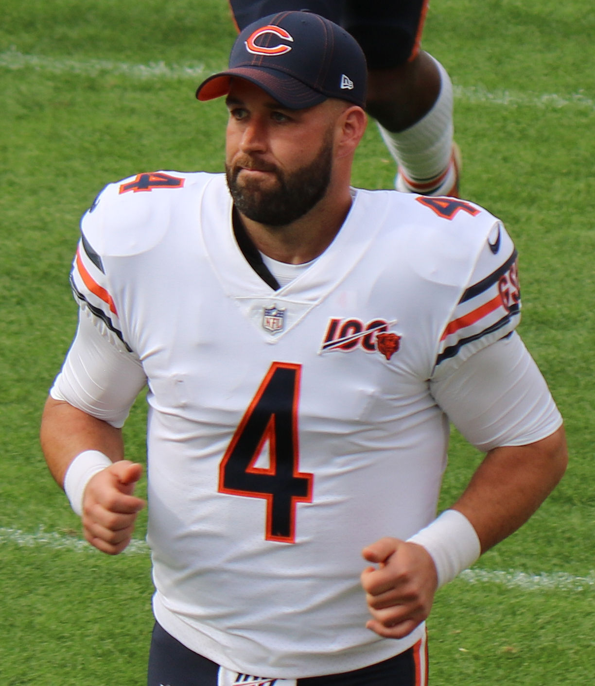 Chase Daniel, a National Football League player.